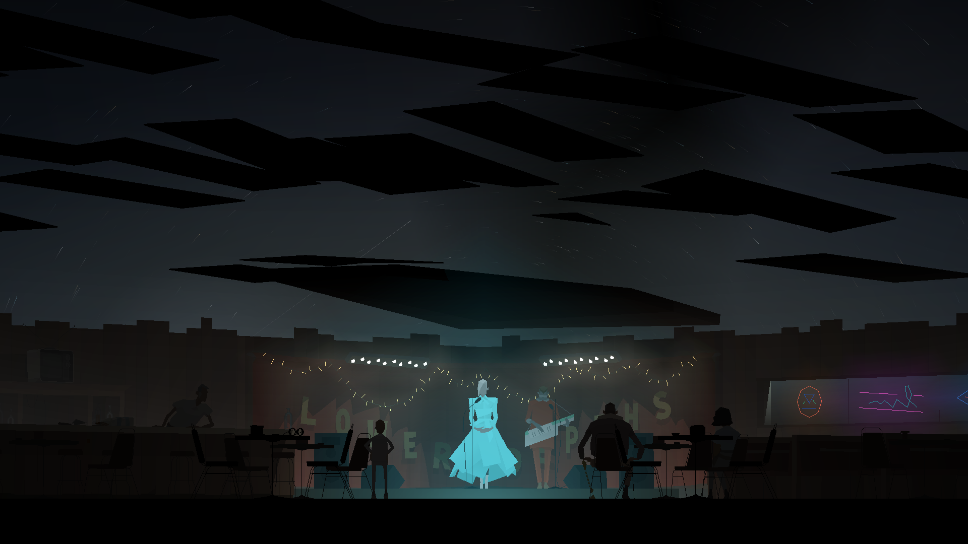 Screenshot of the game Kentucky Route Zero.